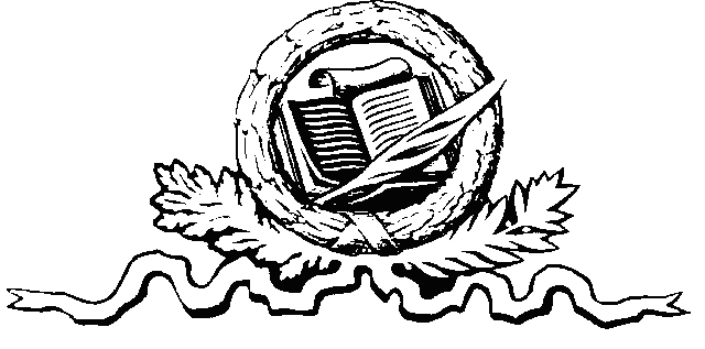 Logo of the National Library of Russia